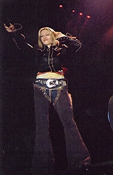 Madonna performing "Don't Tell Me" on the Drowned World Tour